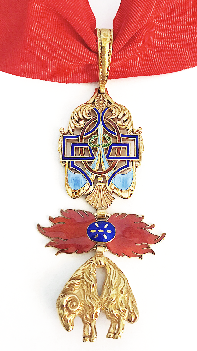 Insignia of a Knight of the Order of the Golden Fleece of Spain. Modern manufacture, Cejalvo (Madrid).